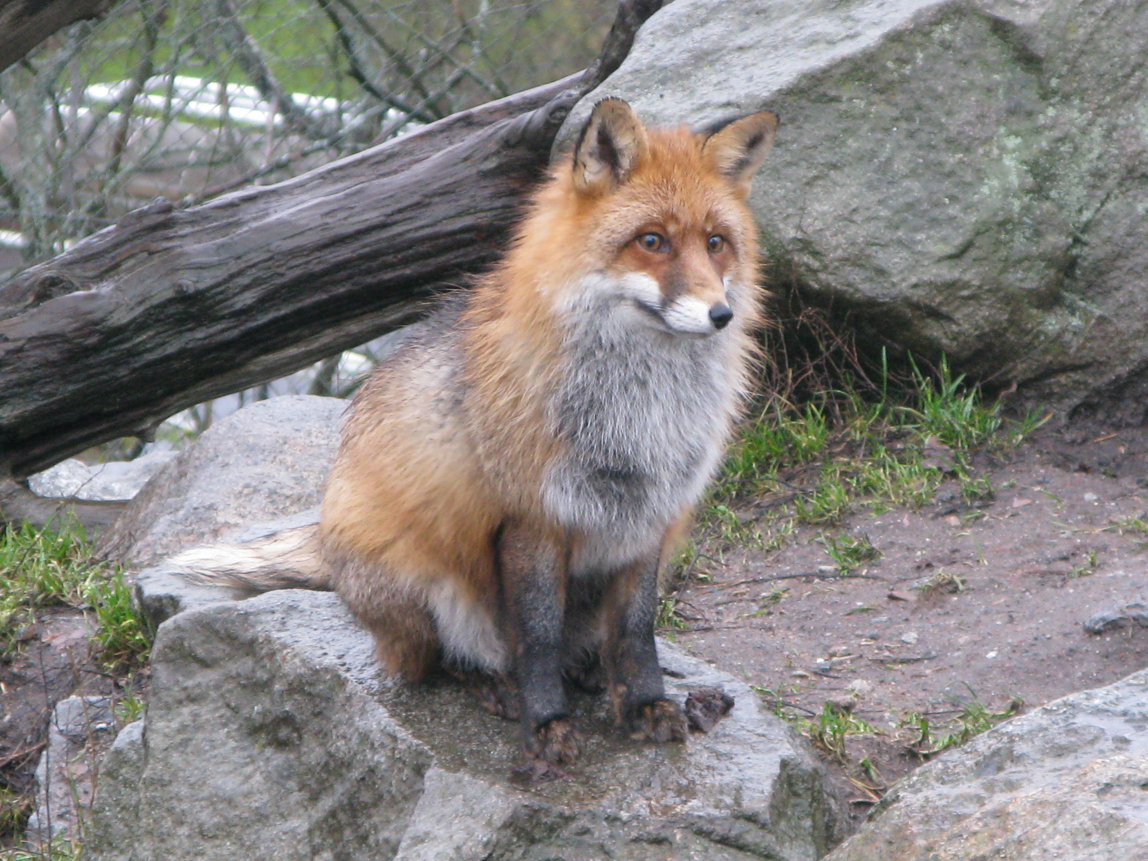 A red fox (vulpes vulpes vulpes) seated, in Skansen.